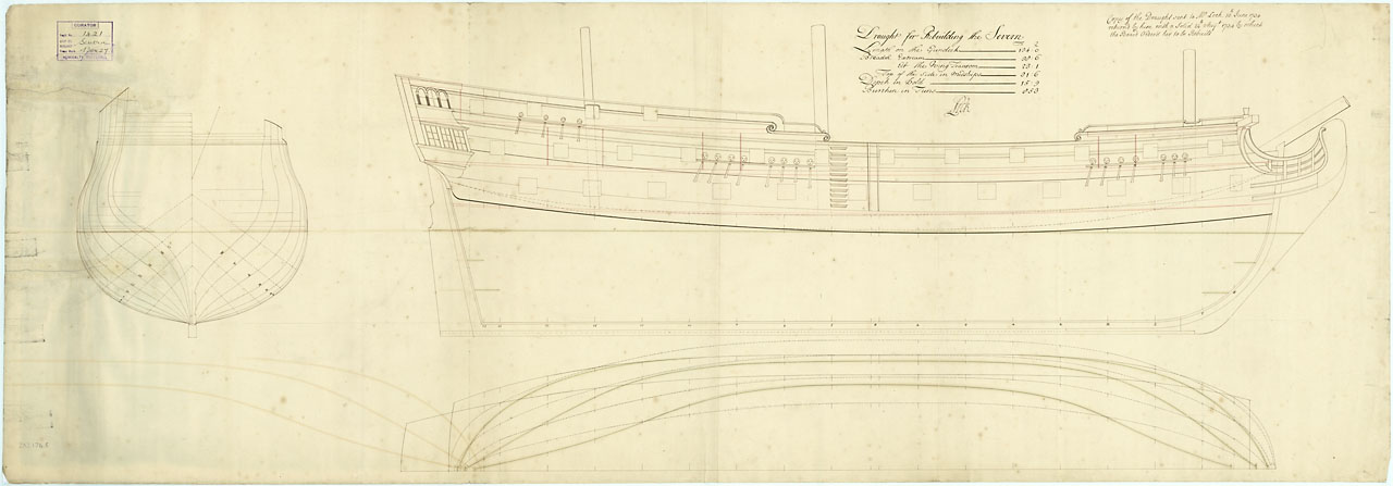 Severn (1739) Scale: 1:48. Plan showing the body plan, sheer lines, and longitudinal half-breadth proposed for rebuilding the Severn (1695), and approved for the Severn (1739), a 1733 Establishment 50-gun Fourth Rate, two-decker. A copy of this plan was sent to Peirson Lock, Master Shipwright at Plymouth Dockyard, who sent the plan back with a solid model on 24 August 1734. SEVERN 1739